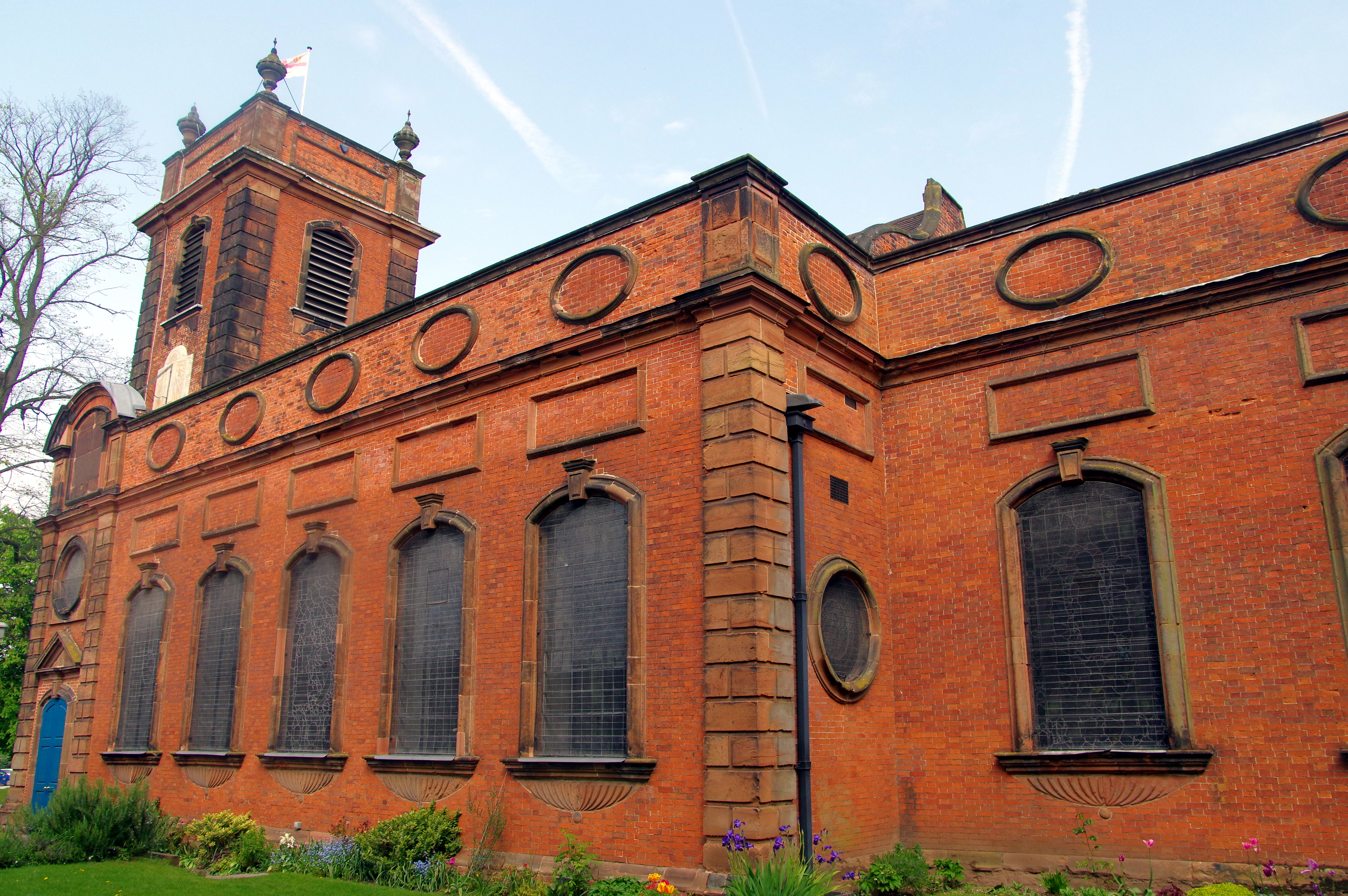 7.5.16 Castle Bromwich and 40s Day